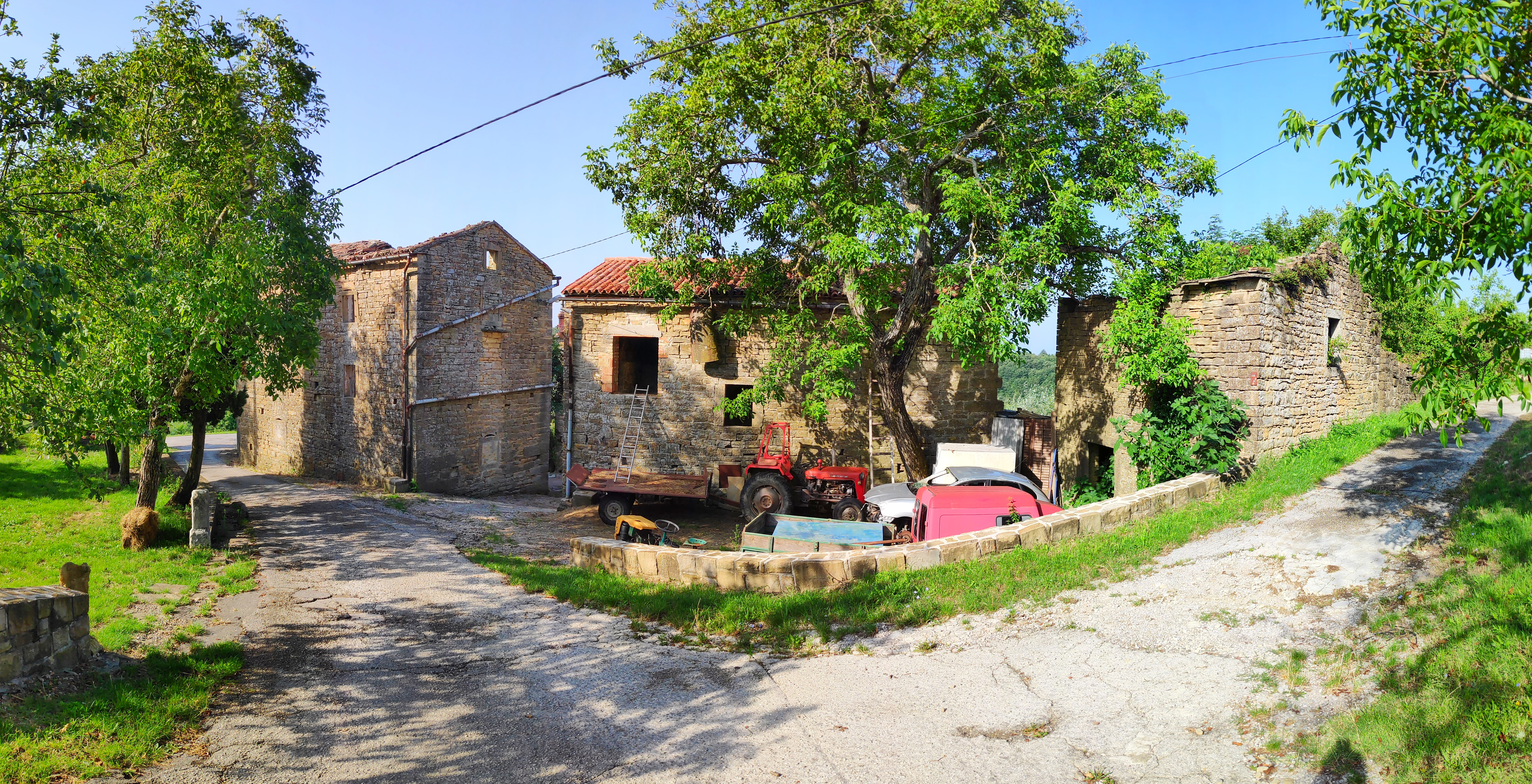 Hrvoji in slovenian Istria.